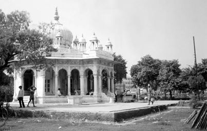 Swami Bhaskarananda's Samadhi Mandir